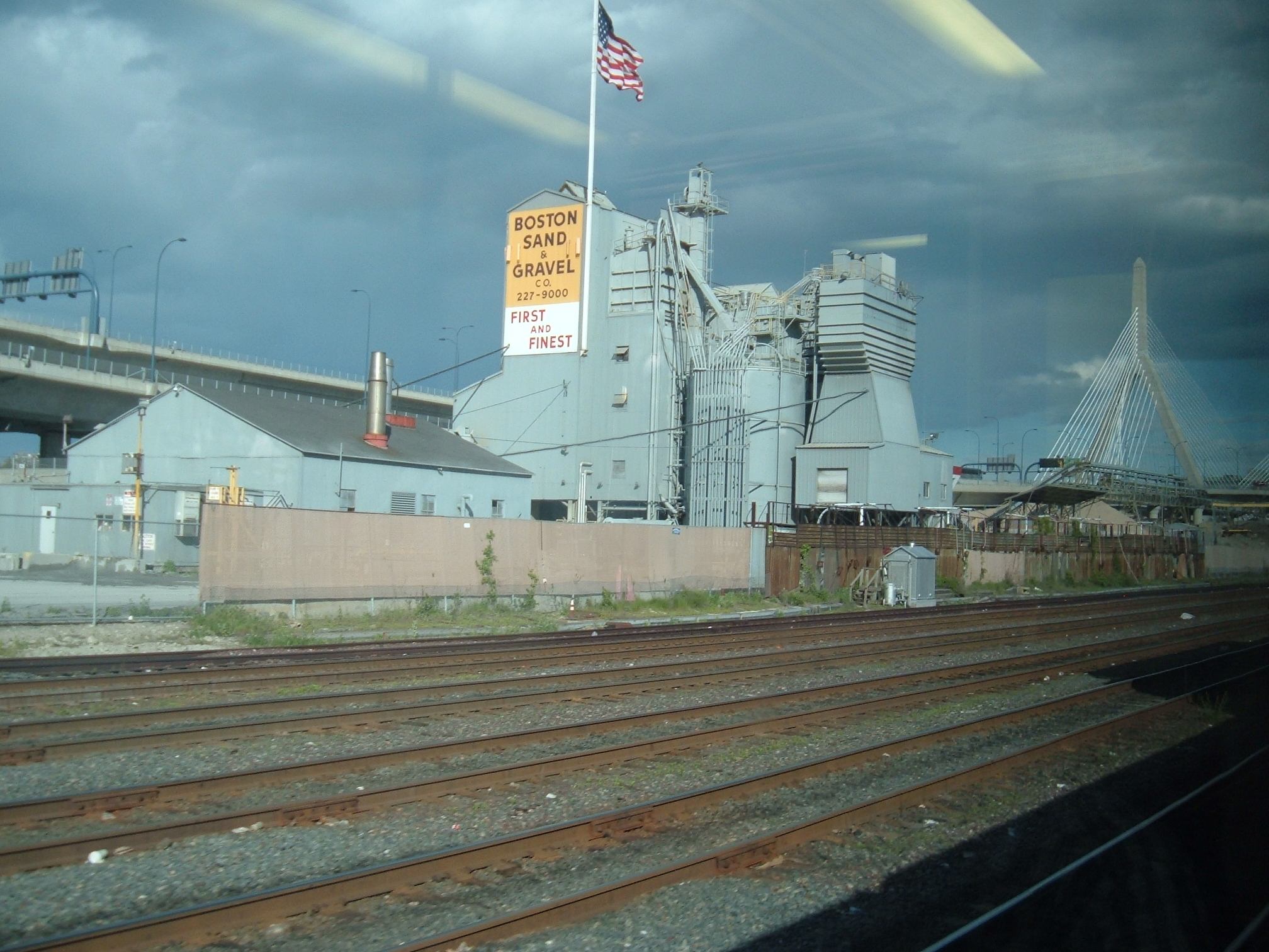 Boston Sand and Gravel plant, taken from an MBTA commuter train.